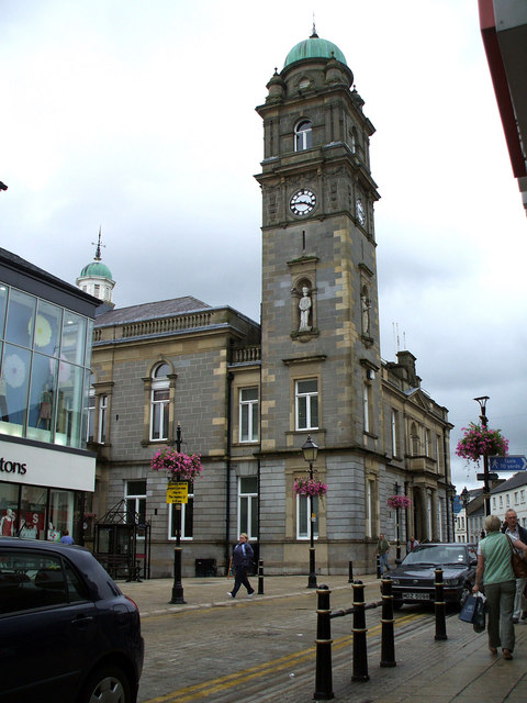 Enniskillen Registry Office Located on the main street